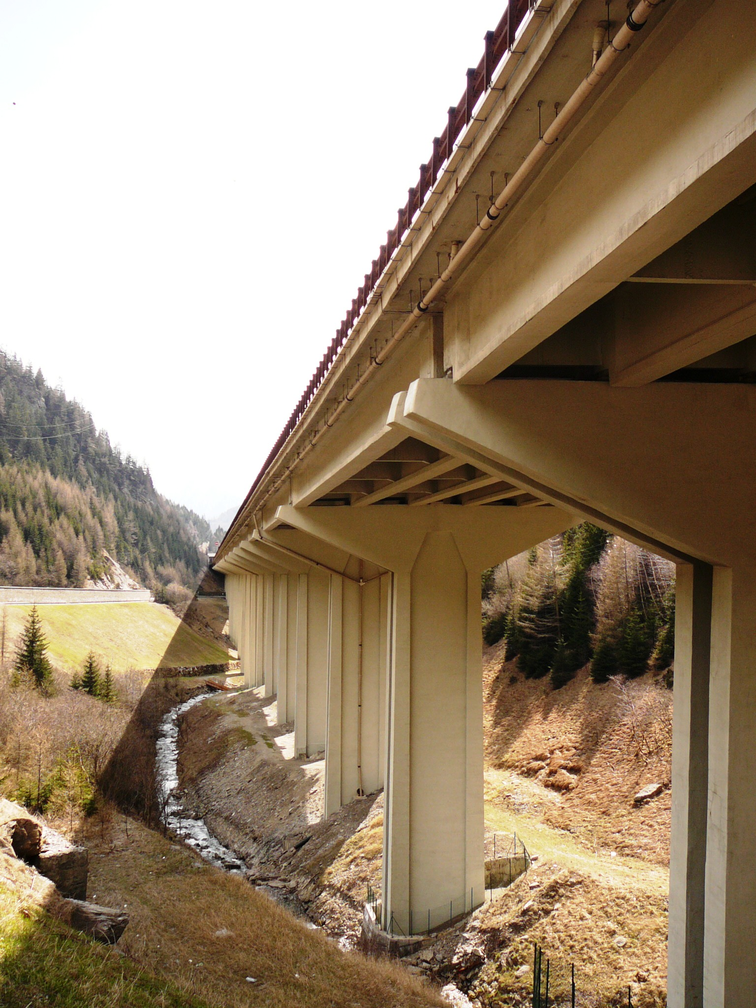 Bridge of the Brenner motorway between Brennerpass and Gossensass (Colle Isarco), left the Brener road SS 12, the stream under the bridge ist the Eisack river